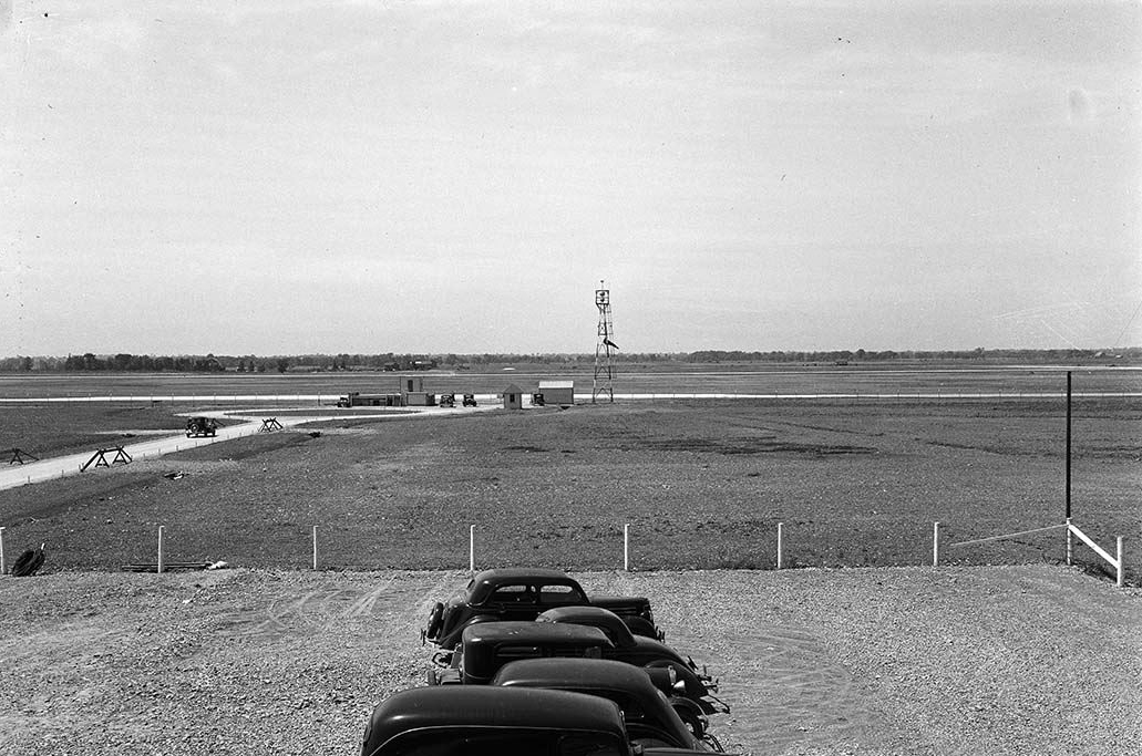 Malton Airport in 1939. Now Toronto Pearson International Airport.